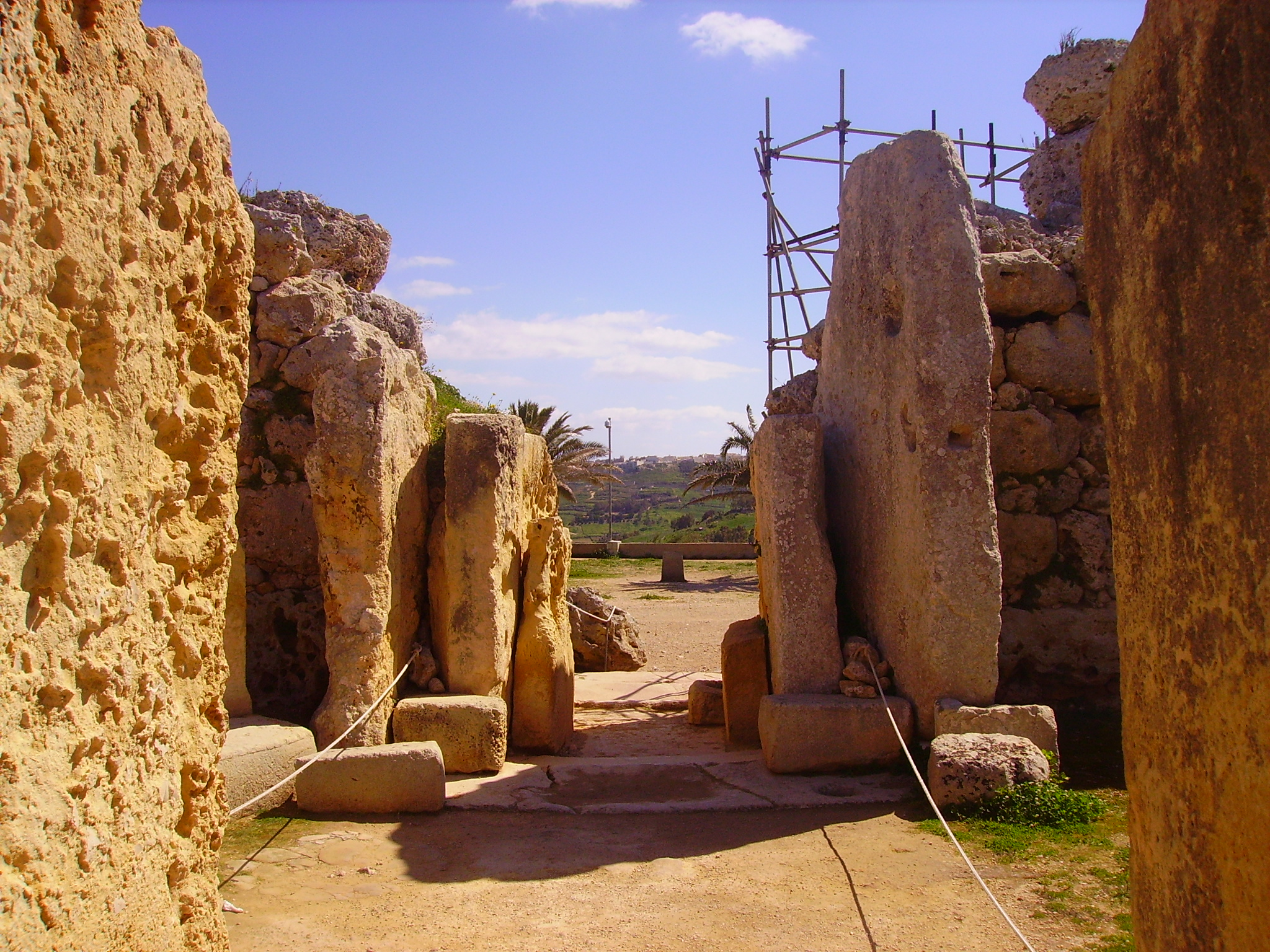 Ggantija Temple, Xaghra